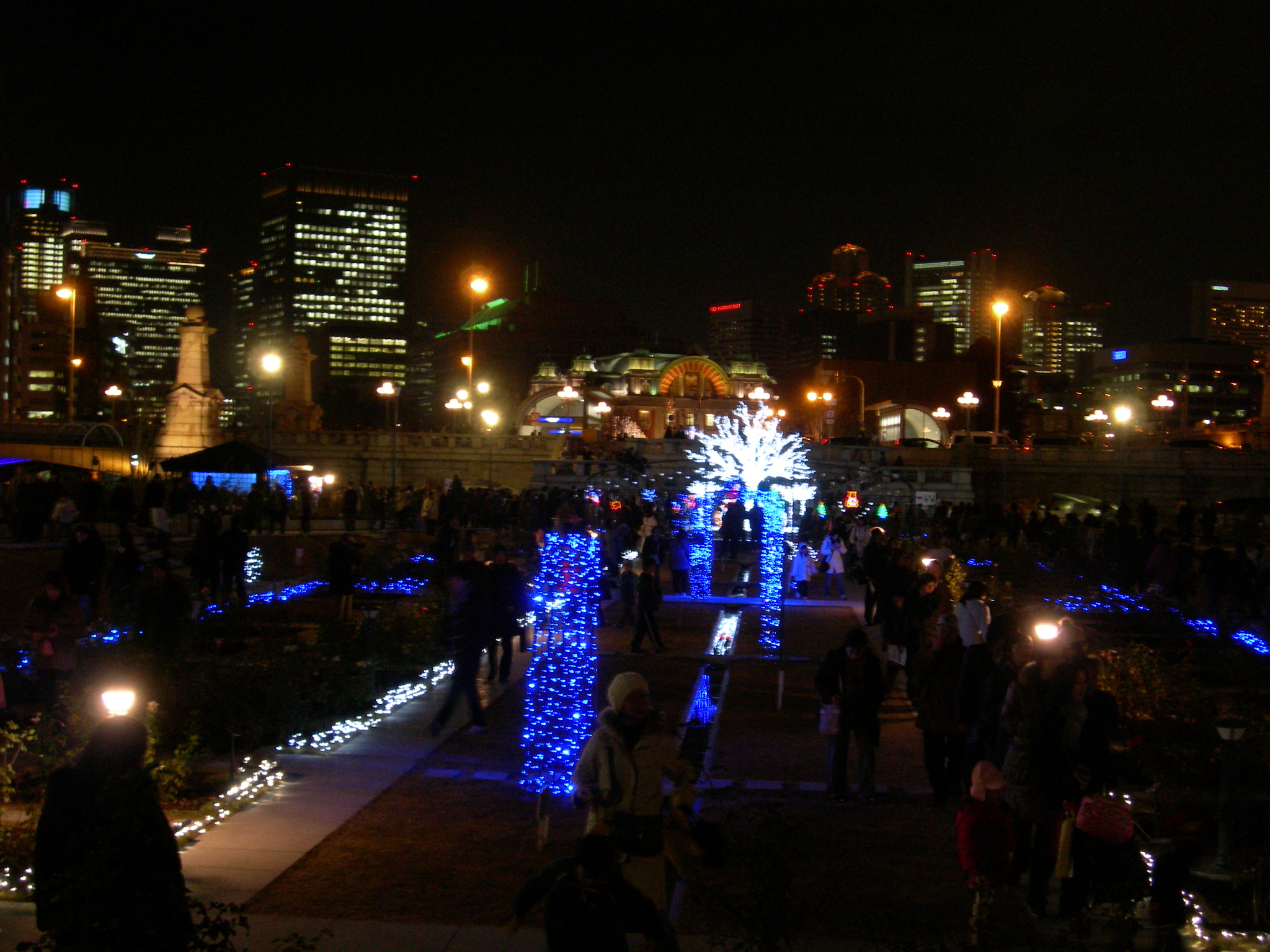 Night of Nakanoshima Park. taken in 2009.